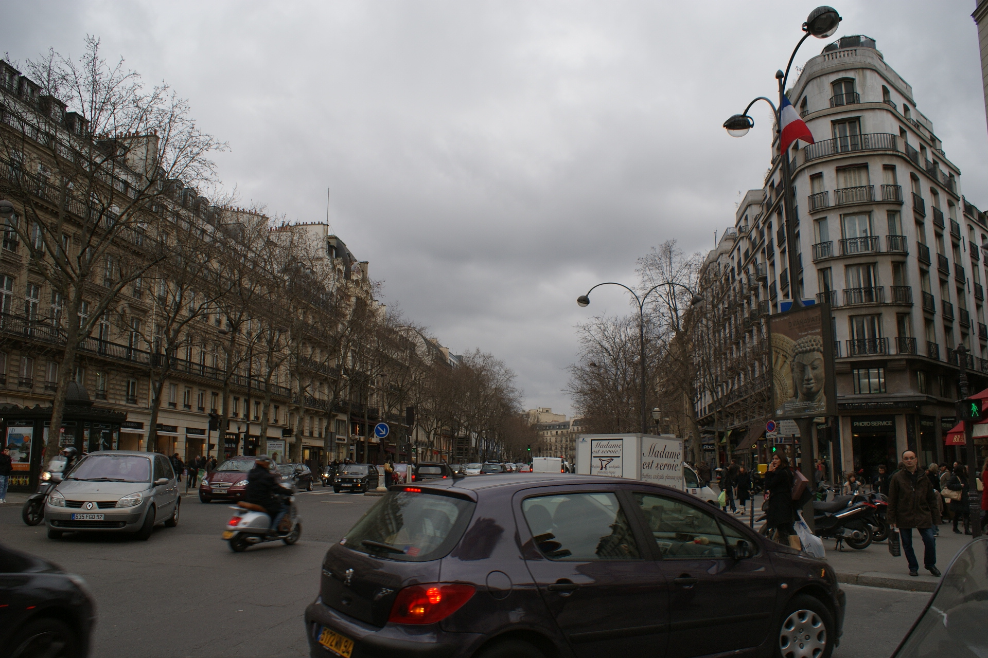 Boulevard de la Madeleine.